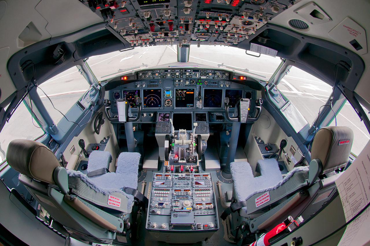 VQ-BKW (cn 37085/3654) Cockpit a new aircraft for S7 - Siberia Airlines in color scheme ONE WORLD Alliance.